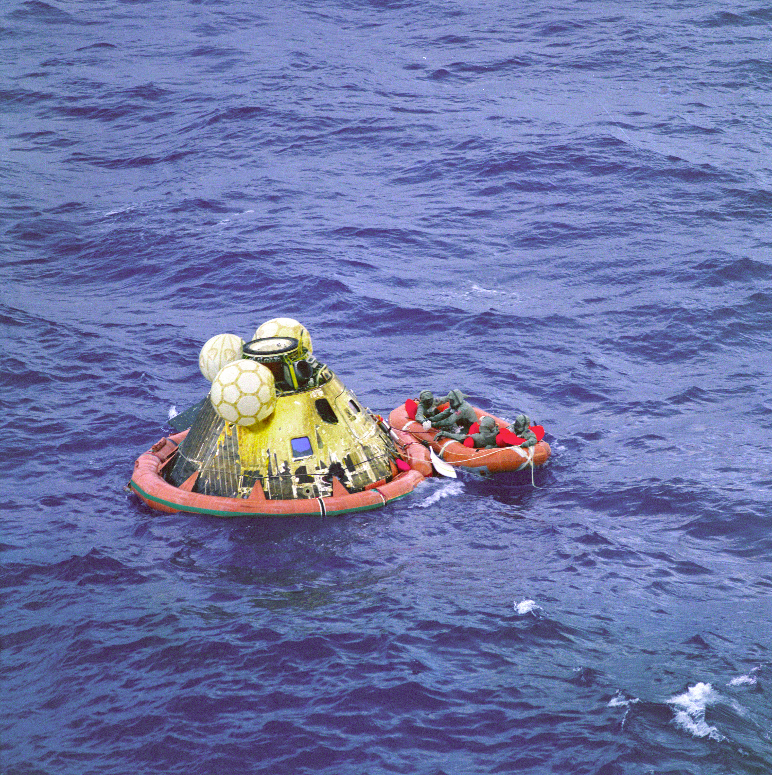 The Apollo 11 crew await pickup by a helicopter from the USS Hornet, prime recovery ship for the historic Apollo 11 lunar landing mission. The fourth man in the life raft is a United States Navy underwater demolition team swimmer. All four men are wearing Biological Isolation Garments (BIG). The Apollo 11 Command Module "Columbia," with astronauts Neil A. Armstrong, Michael Collins, and Edwin E. Aldrin Jr. splashed down at 11:49 a.m. (CDT), July 24, 1969, about 812 nautical miles southwest of Hawaii and only 12 nautical miles from the USS Hornet.